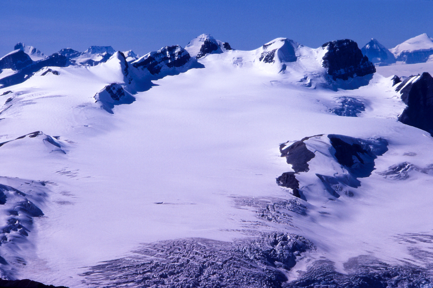 The Mount Lyell massif, including subpeaks L5 (Christian), L4 (Walter), L3 (Ernest), L2 (Edward) and L1 (Rudolf) – l-r – plus the Lyell Icefield, as taken from the summit of parent Mt. Forbes, 10 miles to the SE (132⁰). Of note, five peaks of the Columbia Icefield area are on the horizon: Mounts Bryce, King Edward, Columbia (looking like a part of L3), South Twin and North Twin – l-r. Mt. Bryce is some 21 miles away at 306⁰ while North Twin is 33 miles away at 320⁰, both from the camera position.